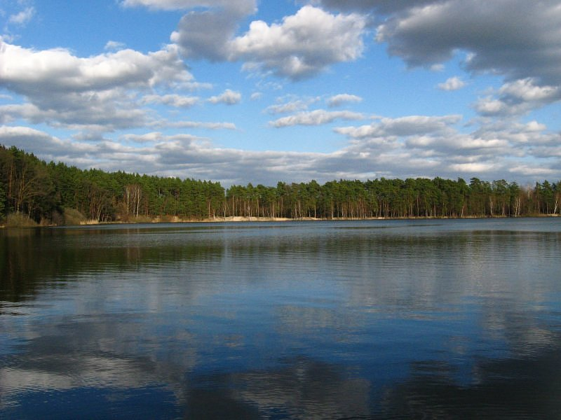 The lake is quite new